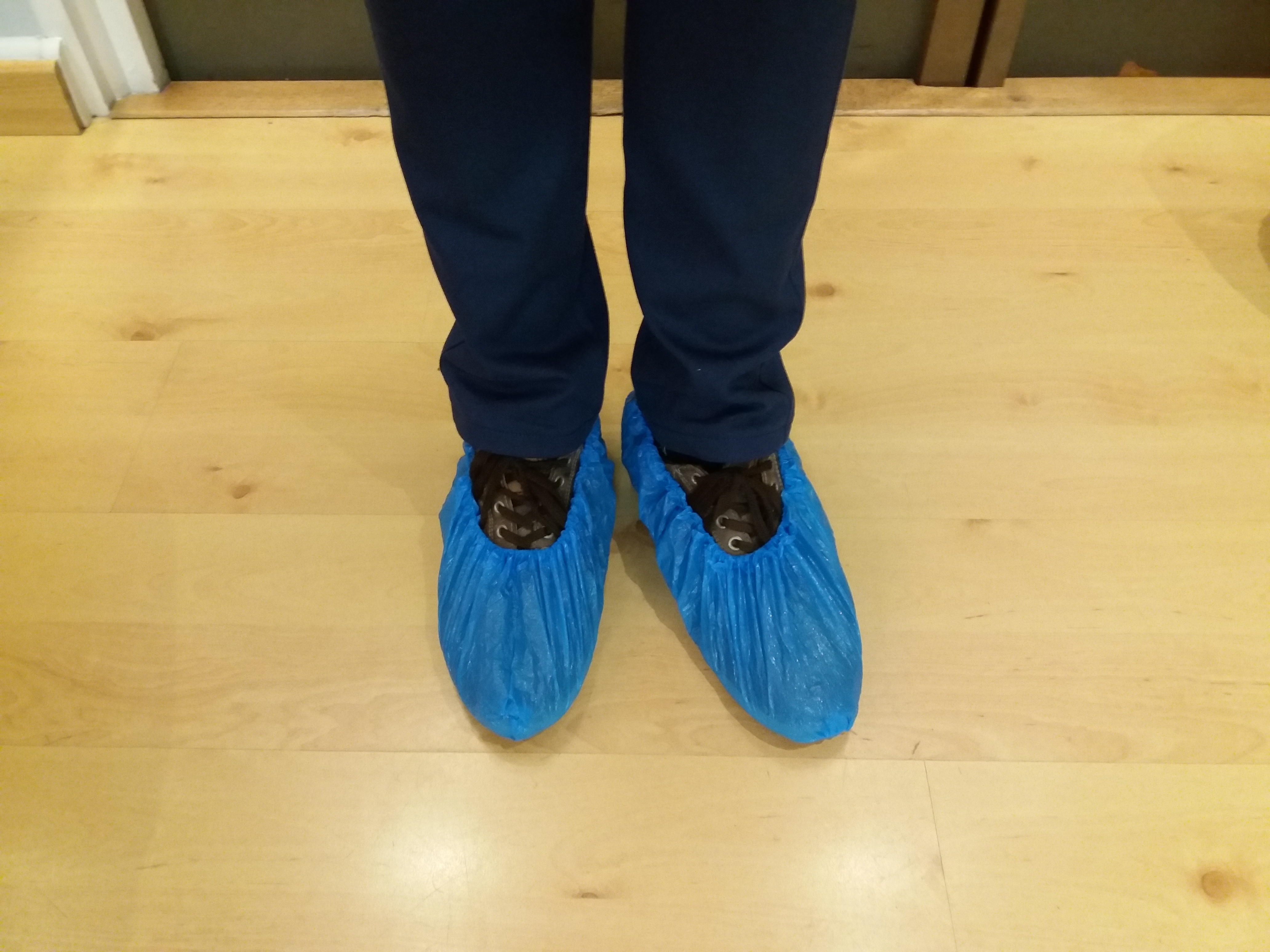 Disposable overshoes (or on-shoes or shoe covers).